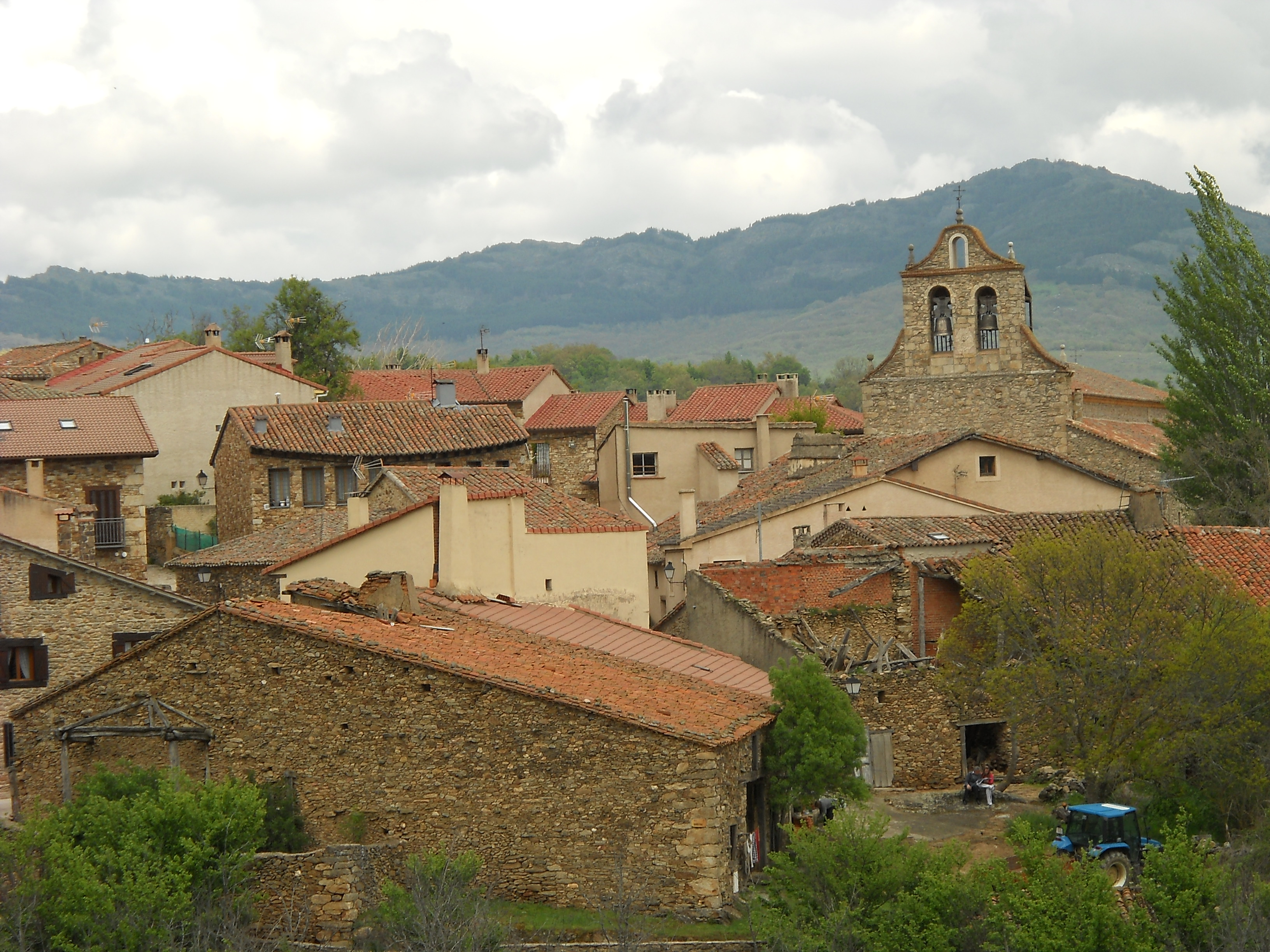 Horcajuelo de la Sierra, Madrid, Spain